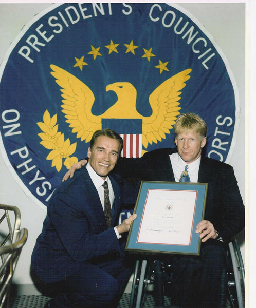 Saunders and former Athlete/Actor/California Governor, Arnold Schwarzenegger.